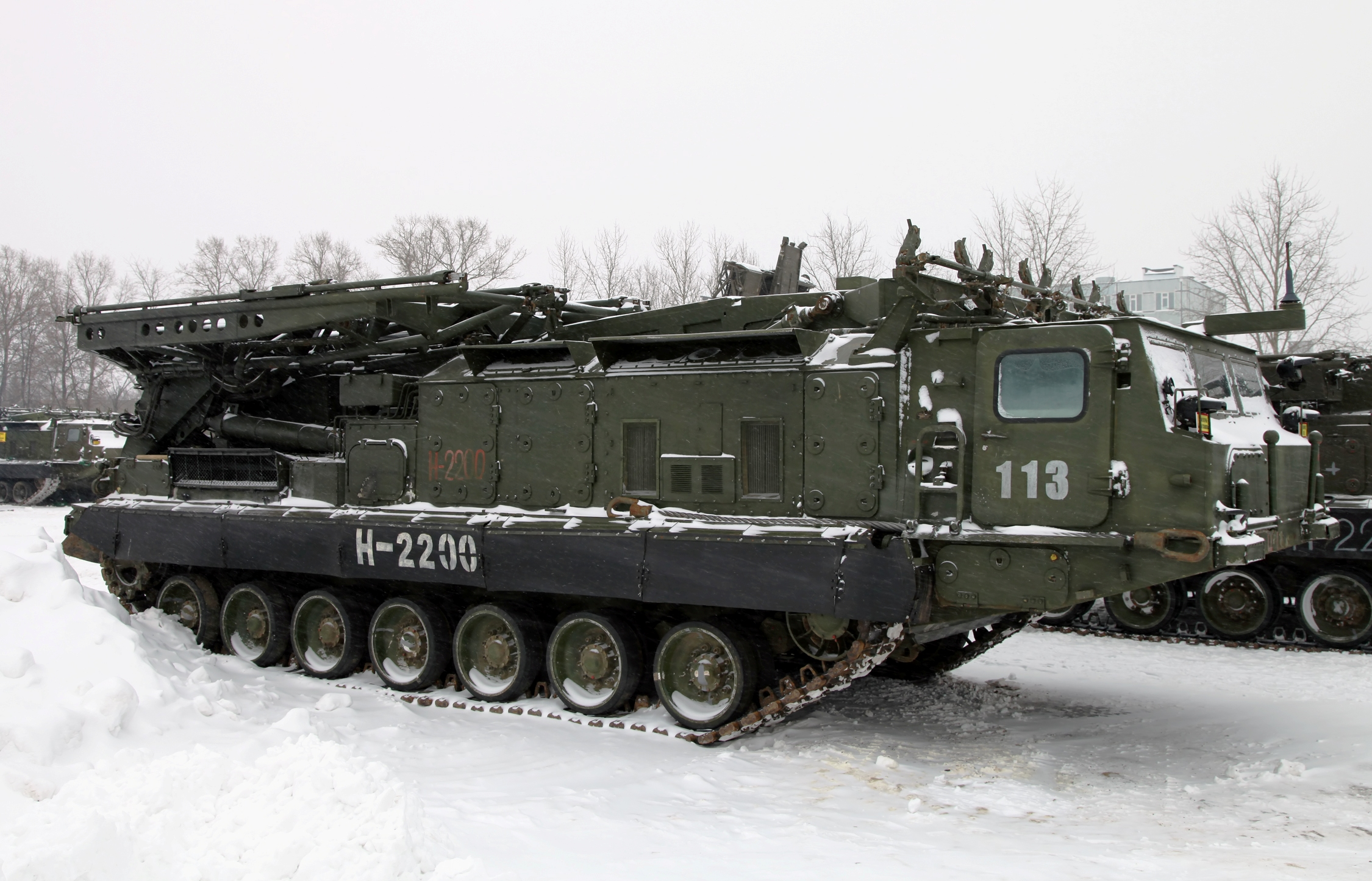 The 202nd Air Defence Brigade in the Western Military District in Russia. This air defence brigade is equipped with S-300V-SAMs. This brigade received these systems in 1989.